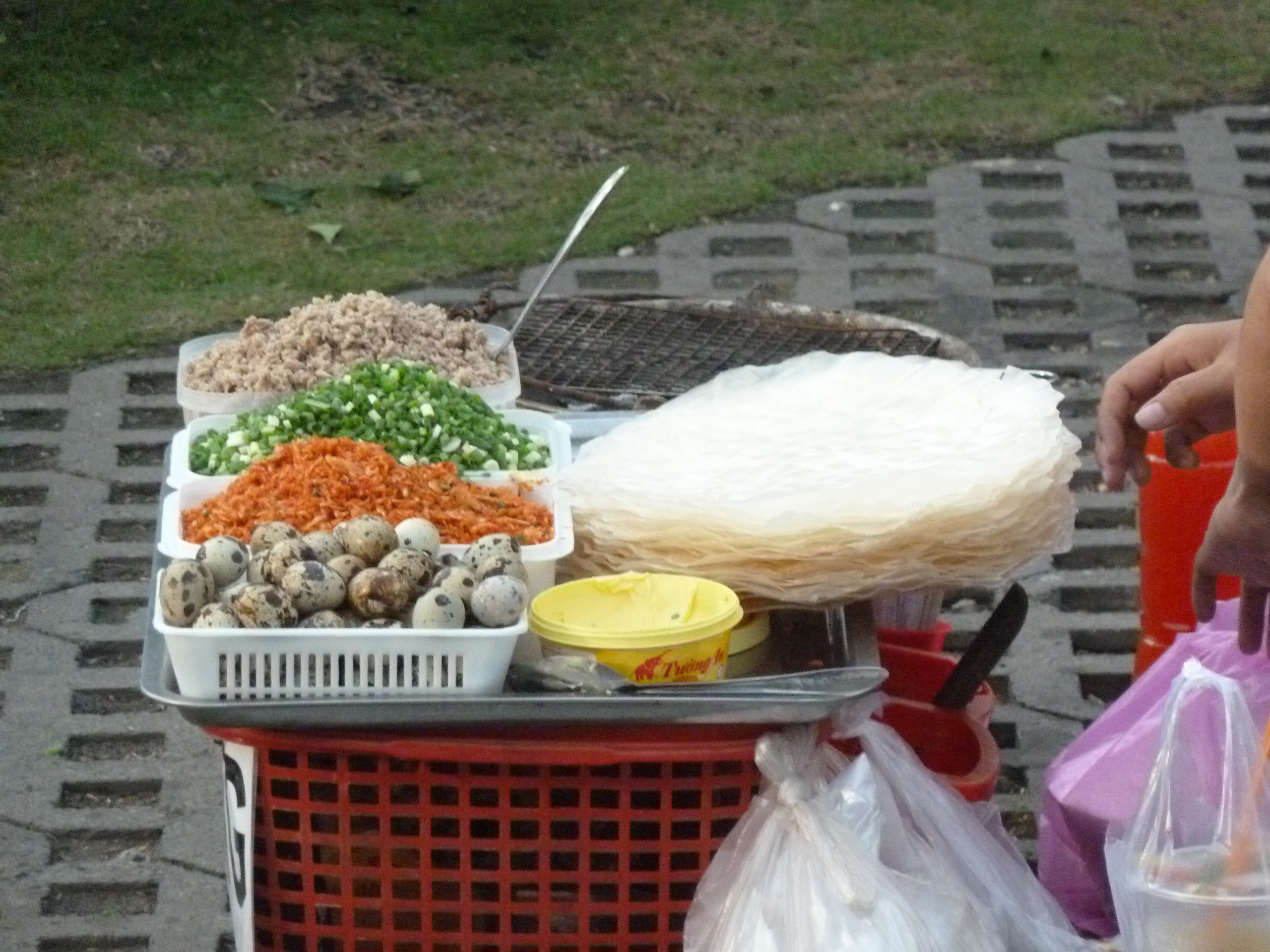 A food stall selling bánh tráng nướng - a popular street food in Vietnam. Ingredients for bánh tráng nướng including rice paper base, margarine, and (from rear), minced pork, green onions, tiny shrimp, and quail eggs. There are other toppings not visible (sauces and such). The result is a sort of mini street pizza